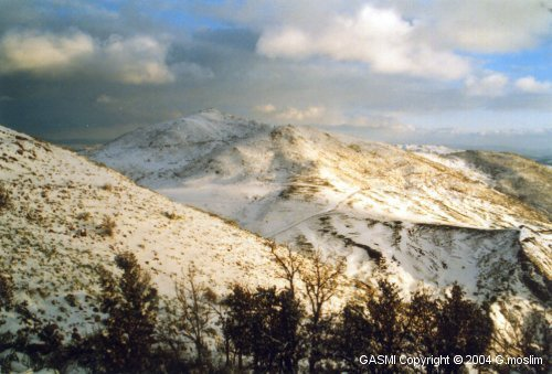 Photographer: GASMI.M. "Source: Own photograph by uploader" Category:Algeria